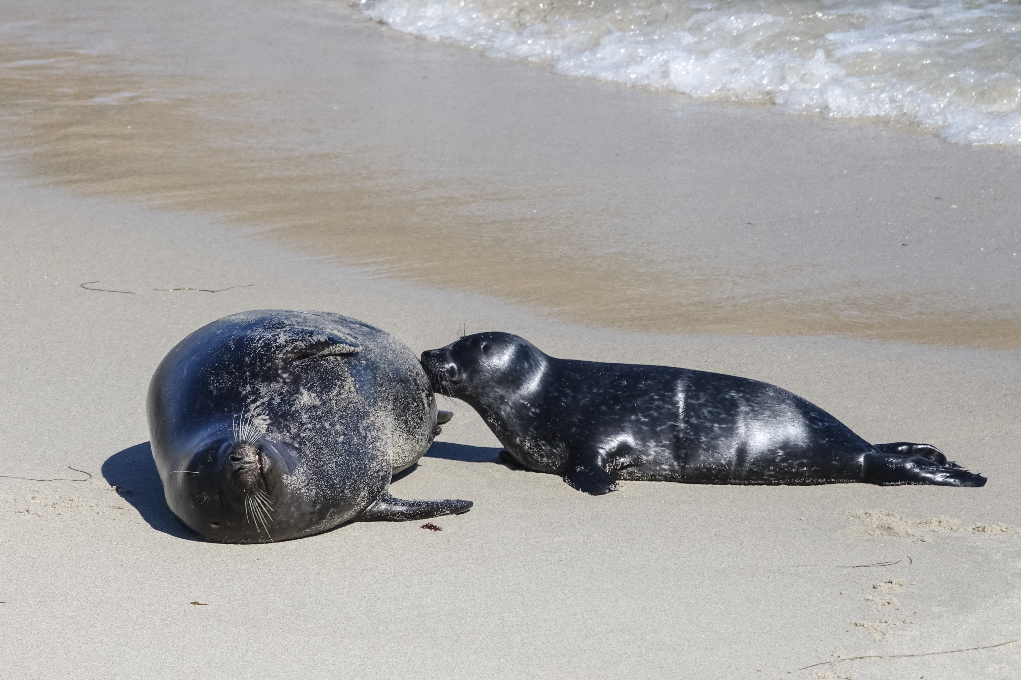 Harbor Seals